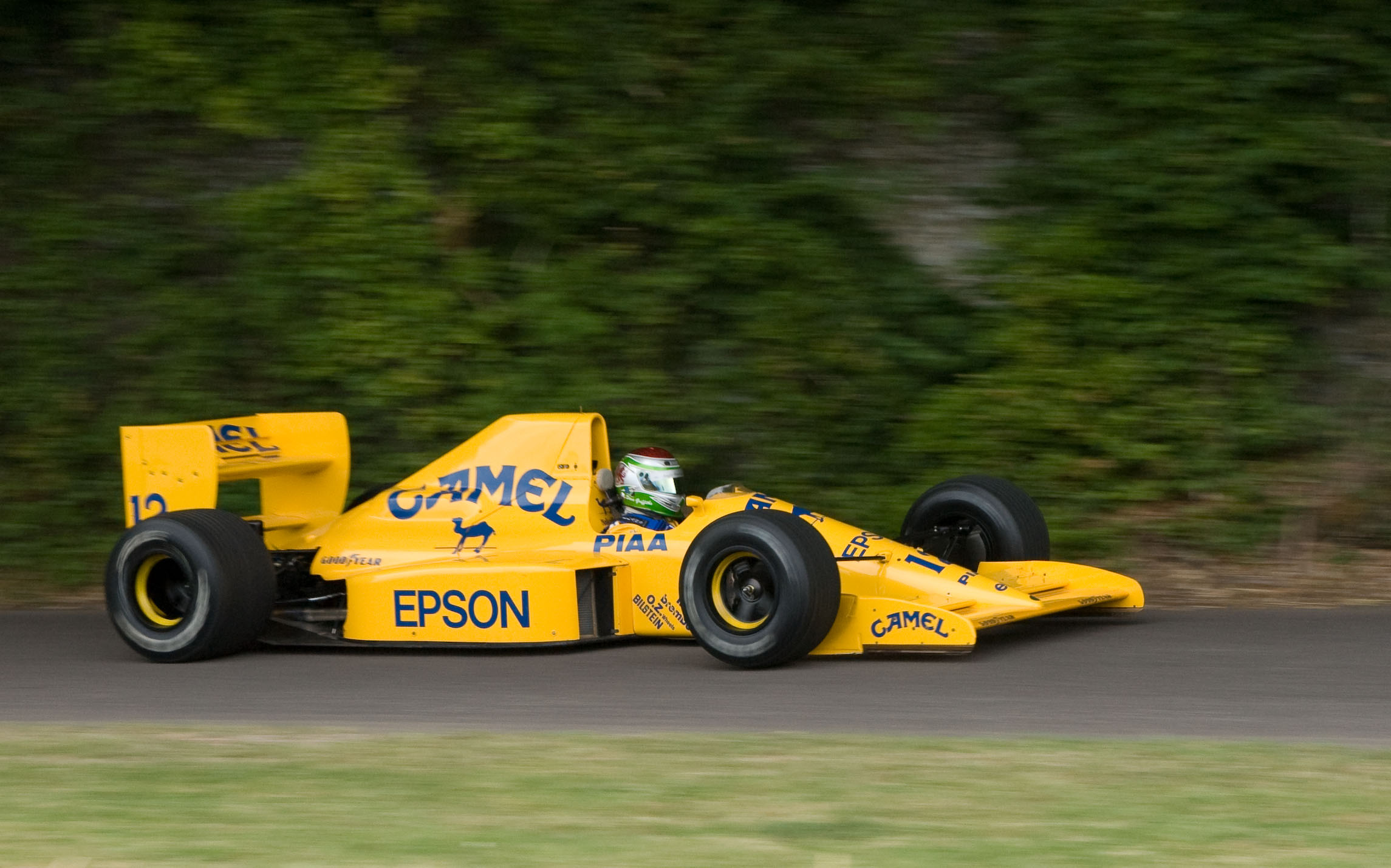 Lotus Judd 101 at Goodwood Festival of Speed 2010